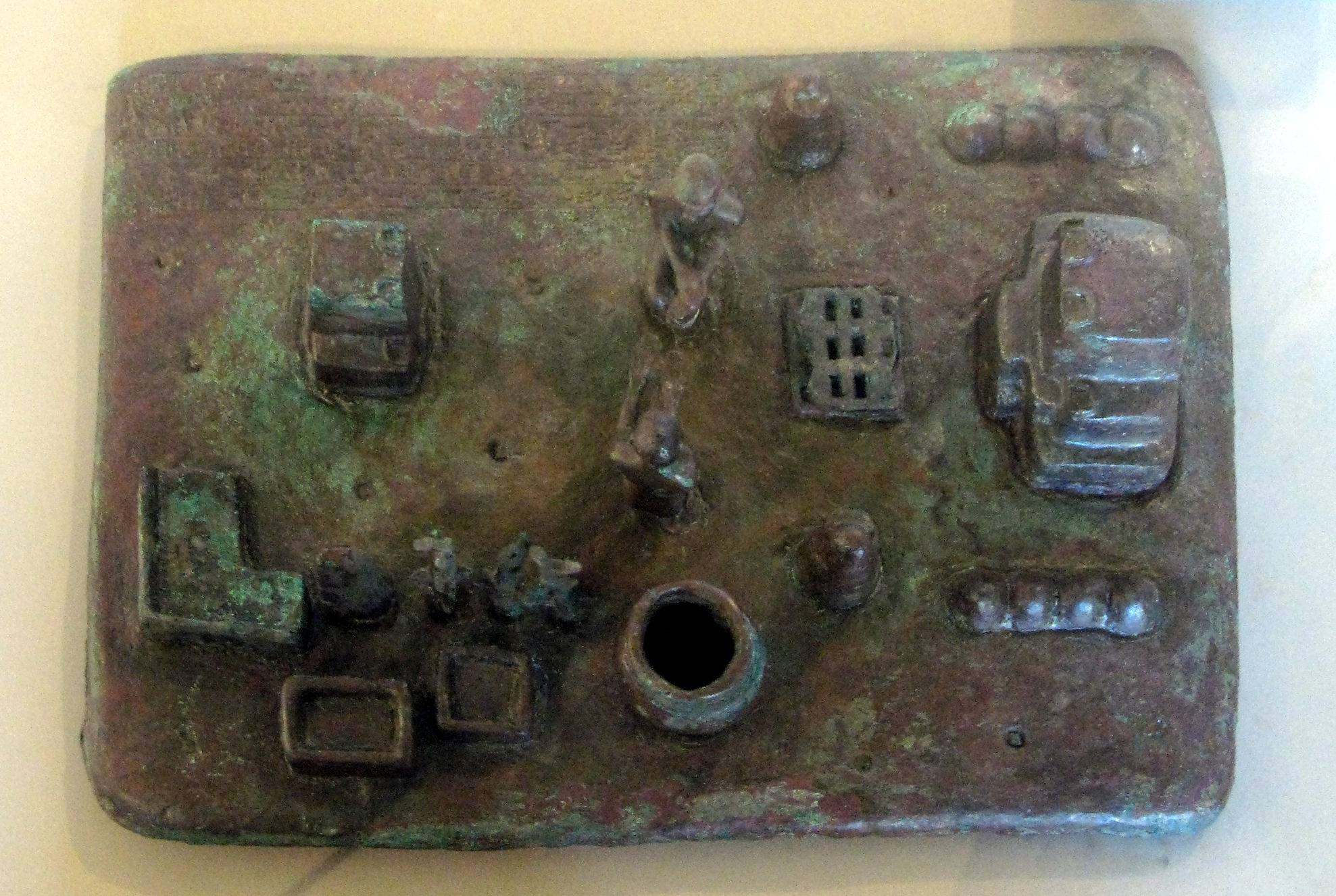 ArtistUnknownDescription Model of temple, also named Sit-shamshi (ceremony of the rising of the sun) [1] 12th century BC Susa Bronze Elamite inscription: "I, Shilhak-Inshushinak, son of Shutruk-Nahhunte, beloved servant of Inshushinak, king of Anzan and Susa, who made the kingdom grow, protector of Elam, I built a bronze sit-shamshi" Current location (Inventory)Louvre Museum Native nameMusée du LouvreLocationParisCoordinates48° 51′ 37″ N, 2° 20′ 15″ E Established1793Website control : Q19675 VIAF: 257711507 ISNI: 0000 0001 2260 177X ULAN: 500125189 LCCN: n80020283 NLA: 35912436 WorldCat Sully Rez-de-chaussée Iran, la Susiane à l'époque médio-élamite Salle 10Accession numberSb 2743Credit lineFound by J. de Morgan between 1904 and 1905Source/PhotographerRama Model of temple, also named Sit-shamshi (ceremony of the rising of the sun) [1] 12th century BC Susa Bronze Elamite inscription: "I, Shilhak-Inshushinak, son of Shutruk-Nahhunte, beloved servant of Inshushinak, king of Anzan and Susa, who made the kingdom grow, protector of Elam, I built a bronze sit-shamshi"